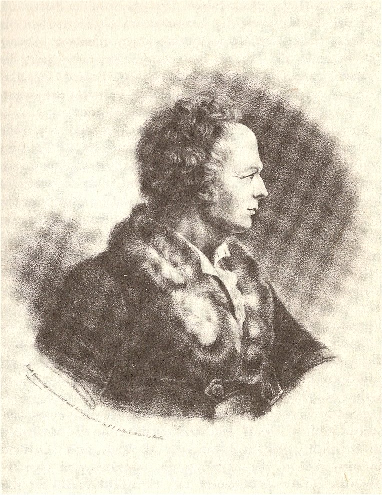 Gluck, drawn and lithograph by F. E. Feller (painting by von Edmé Quenedey)